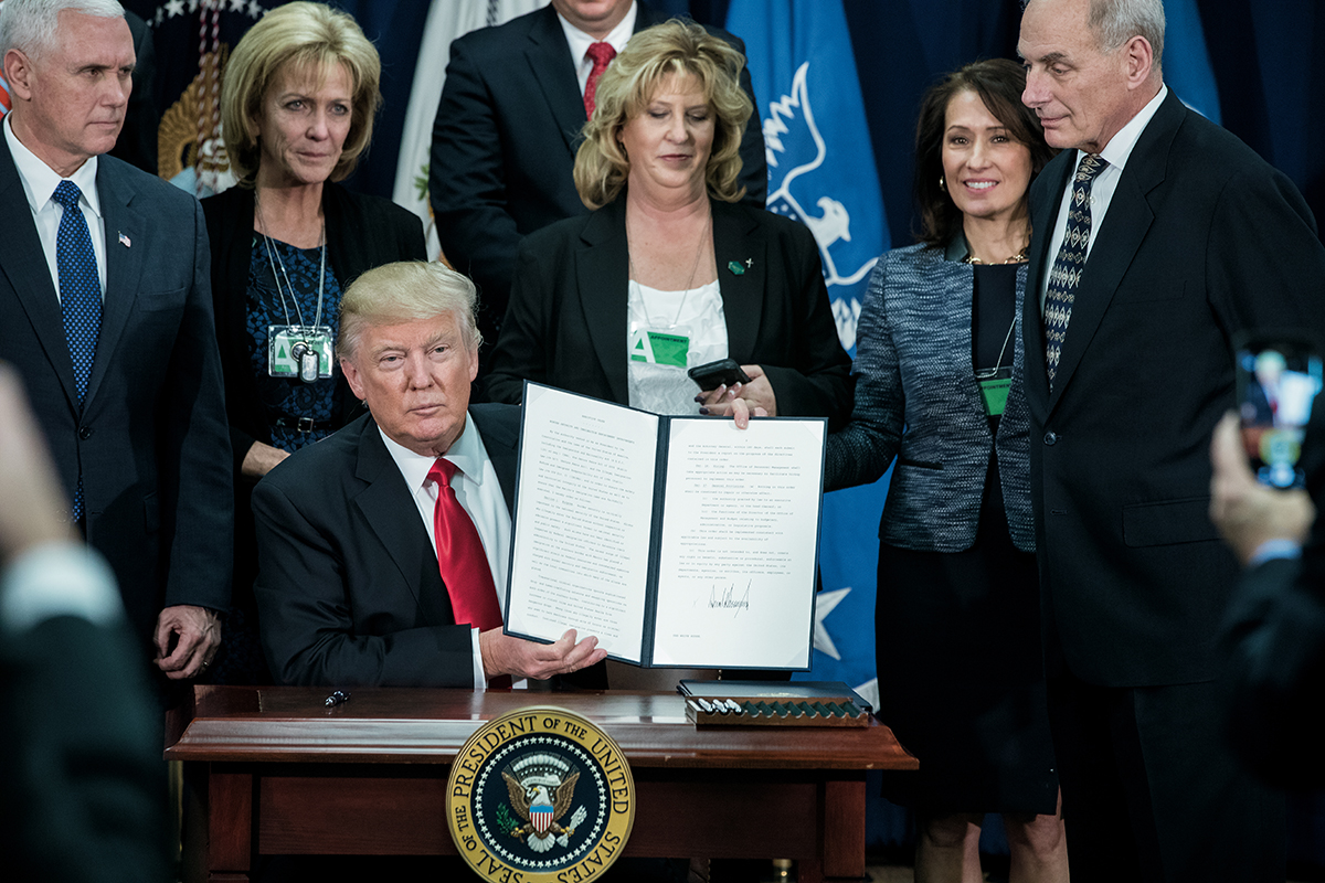 President Donald Trump displays a signed Executive Order at the Department of Homeland Security in Washington, D.C., Wednesday, January 25, 2017. President Trump signed two Executive Orders to aid in border security and immigration enforcement improvements, and to enhance public safety in the interior of the United States. (Official White House Photo by Shealah Craighead)